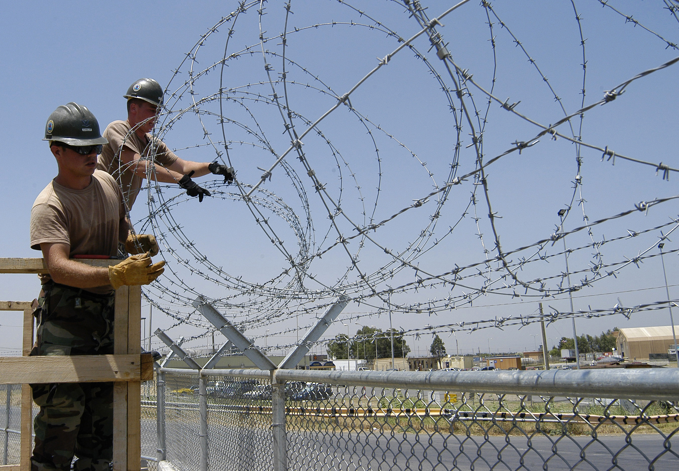 Naval Air Station Sigonella, Sicily (July 23, 2004) - Seabees assigned to Naval Mobile Construction Battalion Seven Four (NMCB 74), install concertina wire on a fence line aboard the naval station. NMCB-74 is currently deployed to NAS Sigonella, and is home based in Gulfport, Miss. Sigonella provides logistics support for Commander, Sixth Fleet and North Atlantic Treaty Organization (NATO) forces in the Mediterranean area of operation. U.S. Navy photo by Journalist 2nd Class Stephen P. Weaver (RELEASED)